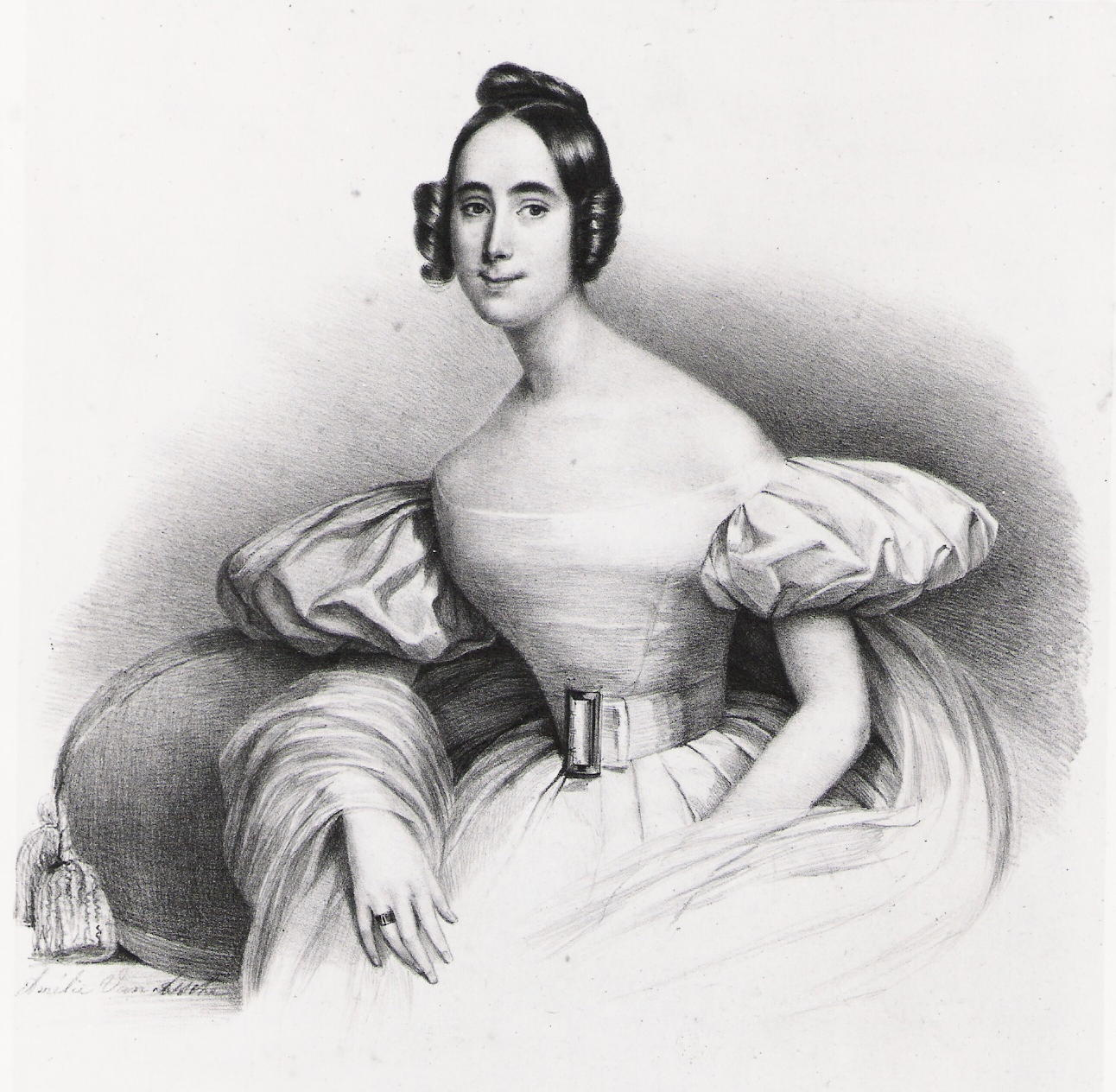 Mademoiselle Ambrosiny (vers 1835). Collection privée. Numérisé par Huster. Original image created between 1832 and 1836; original artist's name illegible to me. Can reasonably be assumed to have died before 1936.